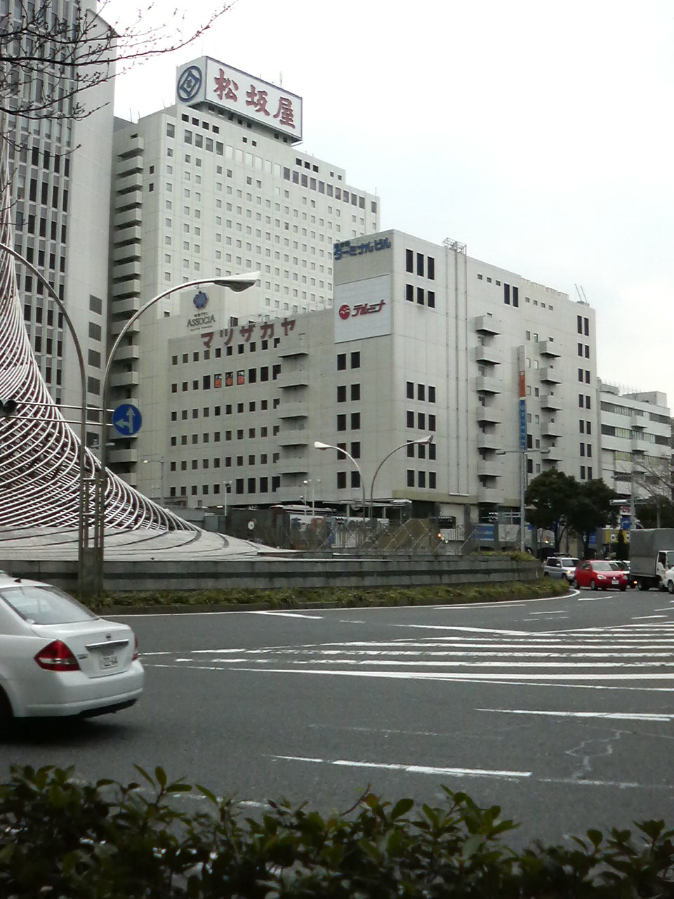 Nagoya Terminal Building in Nakamura-ku, Nagoya City, Aichi Prefecture, Japan